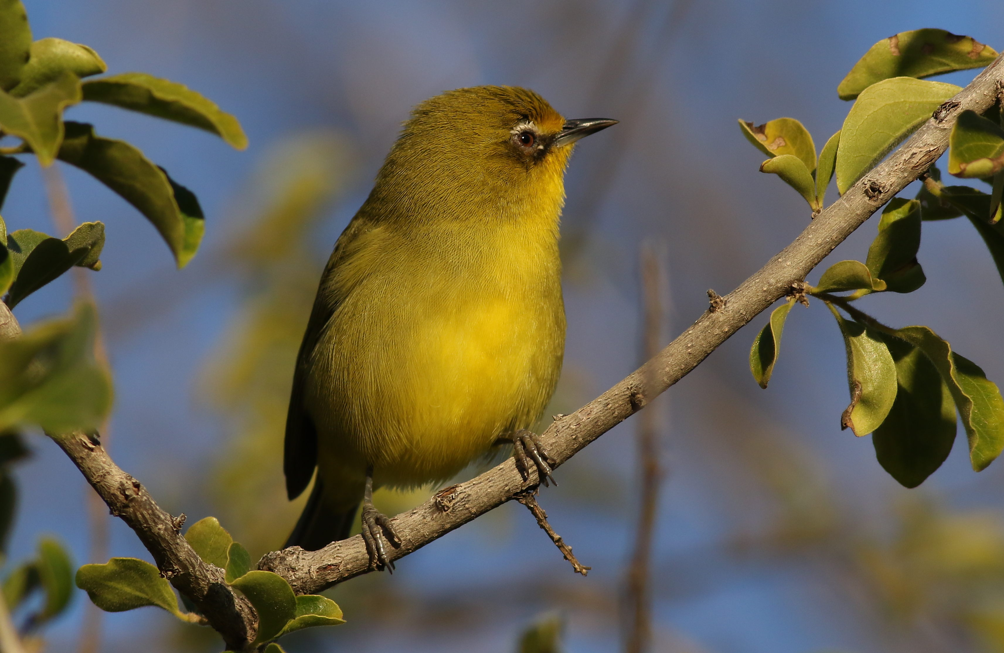 Cape White-eye, Zosterops pallidus, at Pilanesberg National Park, Limpopo Province, South Africa